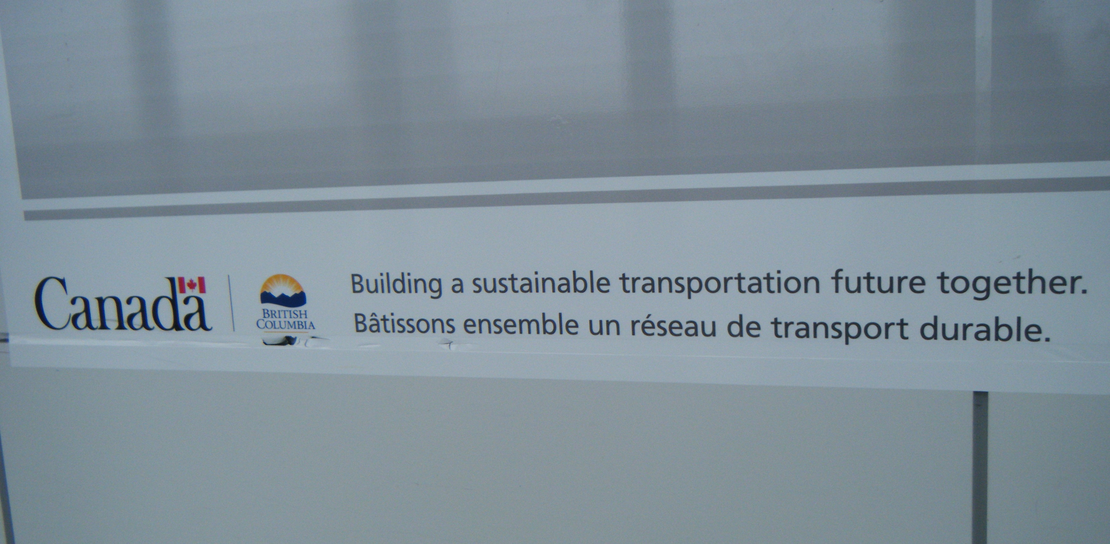 A sign found by the YVR Canada Line Station